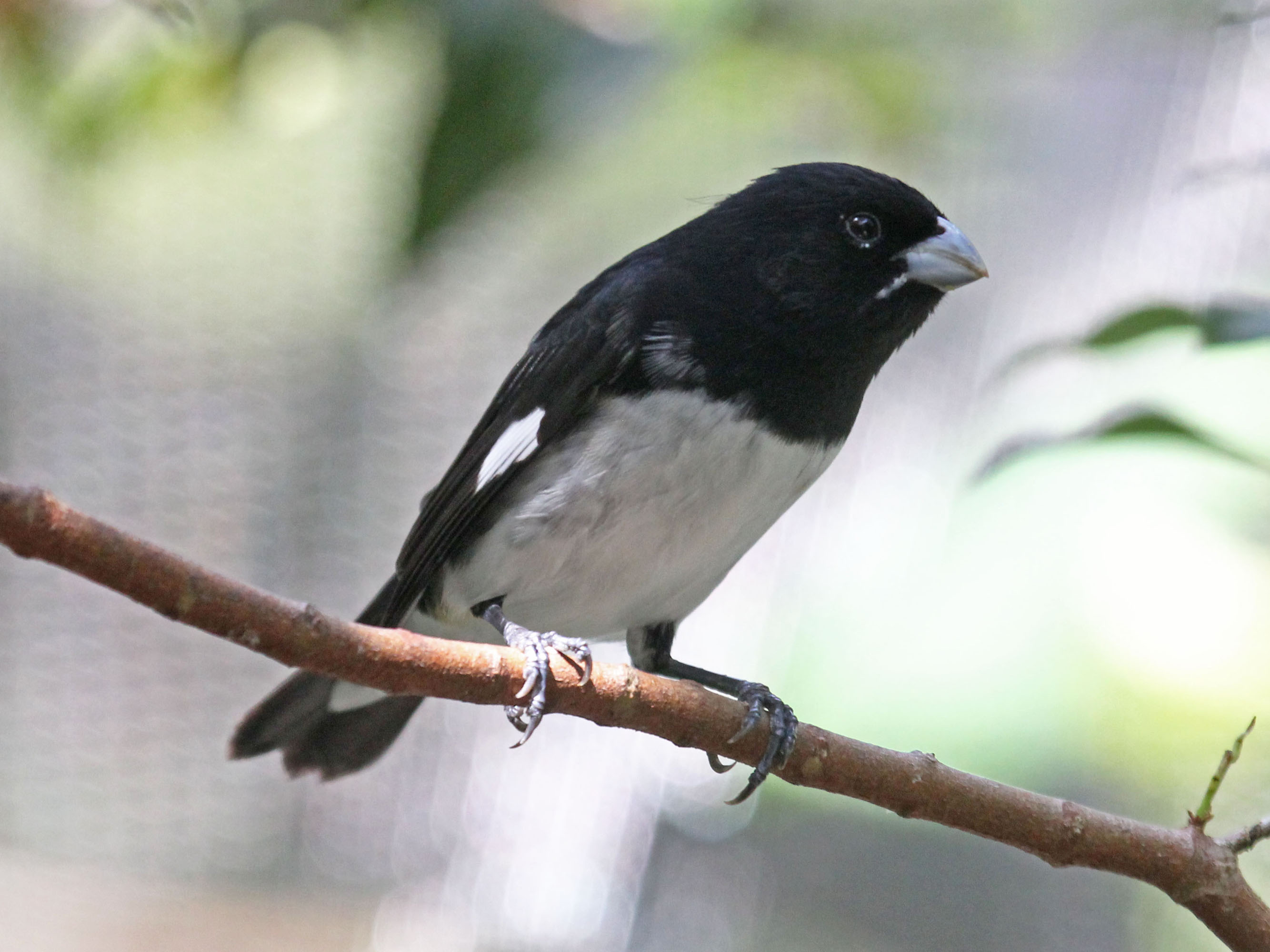 Male Black-and-white Seedeater (Sporophila luctuosa) - Butterfly World, Florida